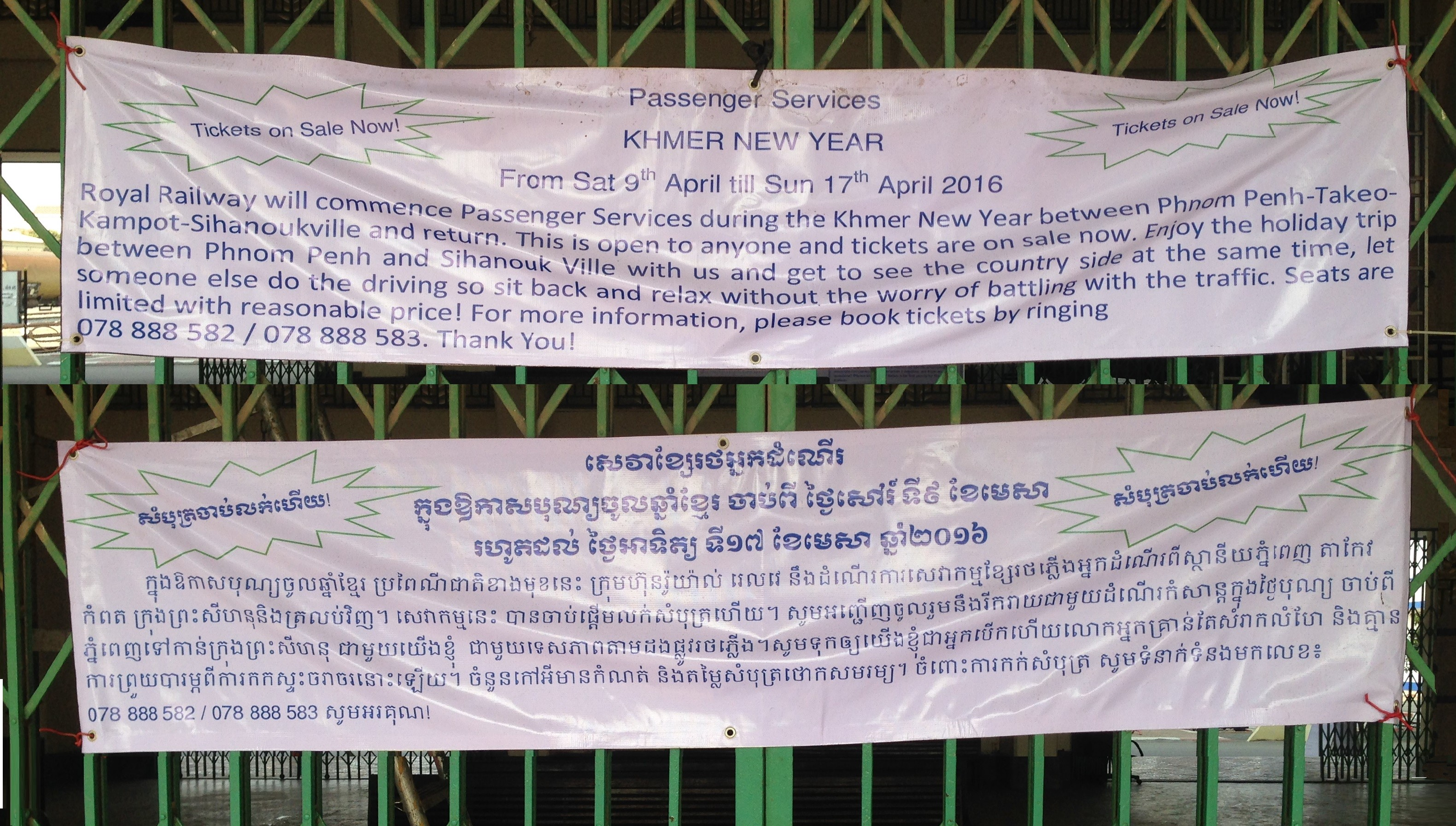 opening of the line Phnom Penh-Sihanoukville